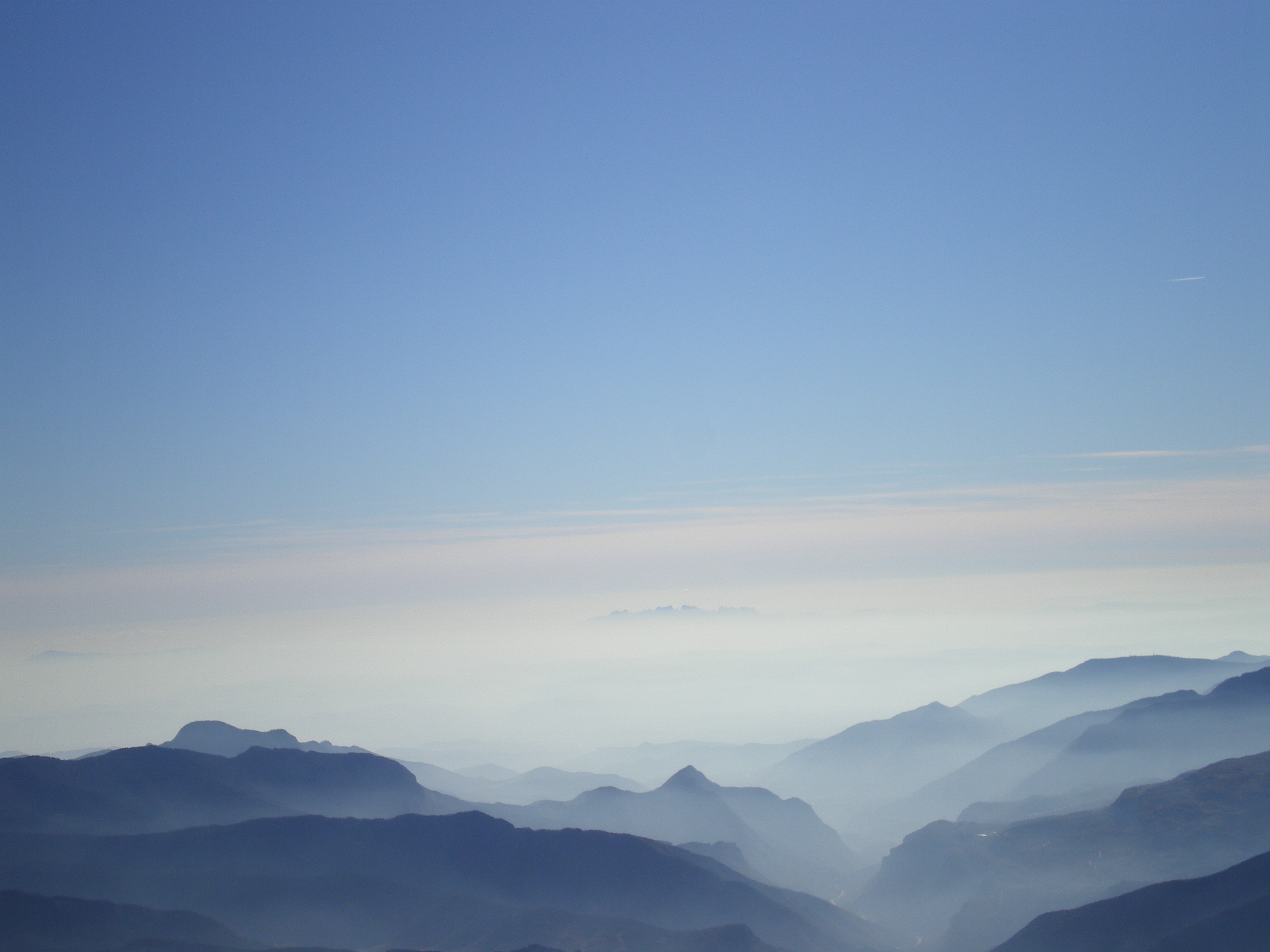 A lo lejos Montserrat - view from Tosa d'Alp towards south